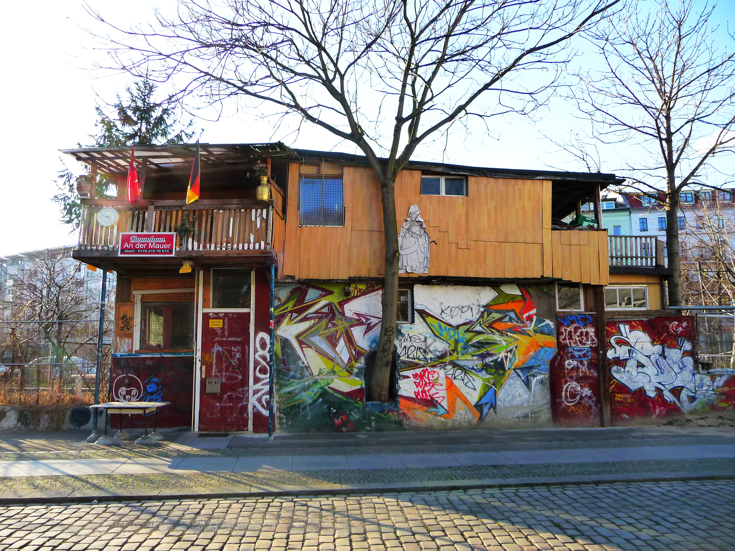 Tree house in Berlin-Kreuzberg